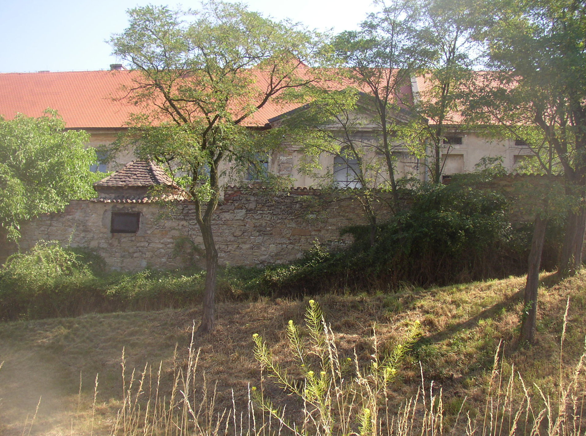 Hrdly Chateau, Litoměřice District. Built in 1746-47 by Kilian Ignaz Dientzenhofer for Benedictines from Břevnov Monastery, partially rebuilt after fire in 1824. A view from the southwest.